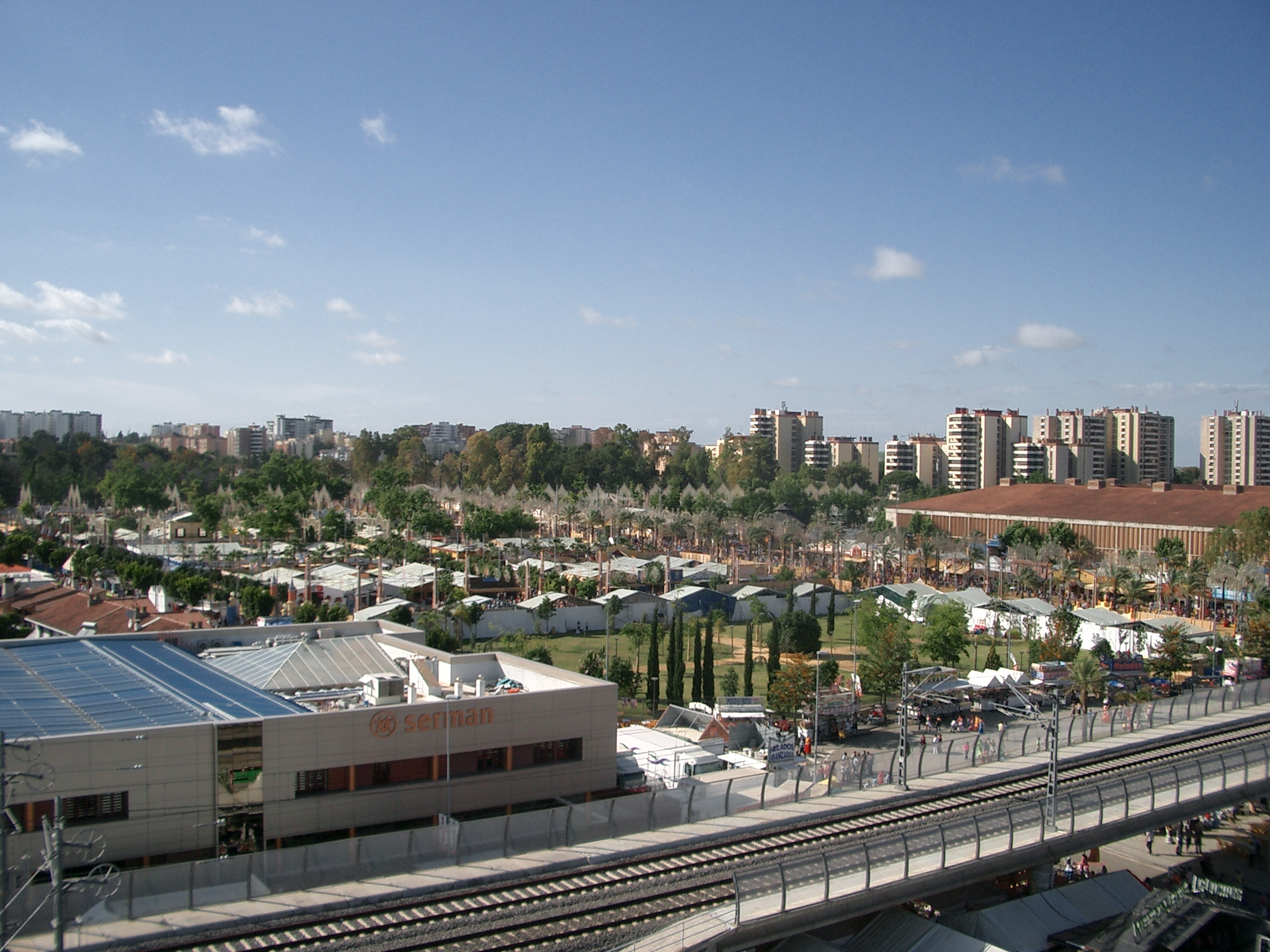 Jerez Feria from the noria. Jerez de la Frontera, Andalusia (Spain)